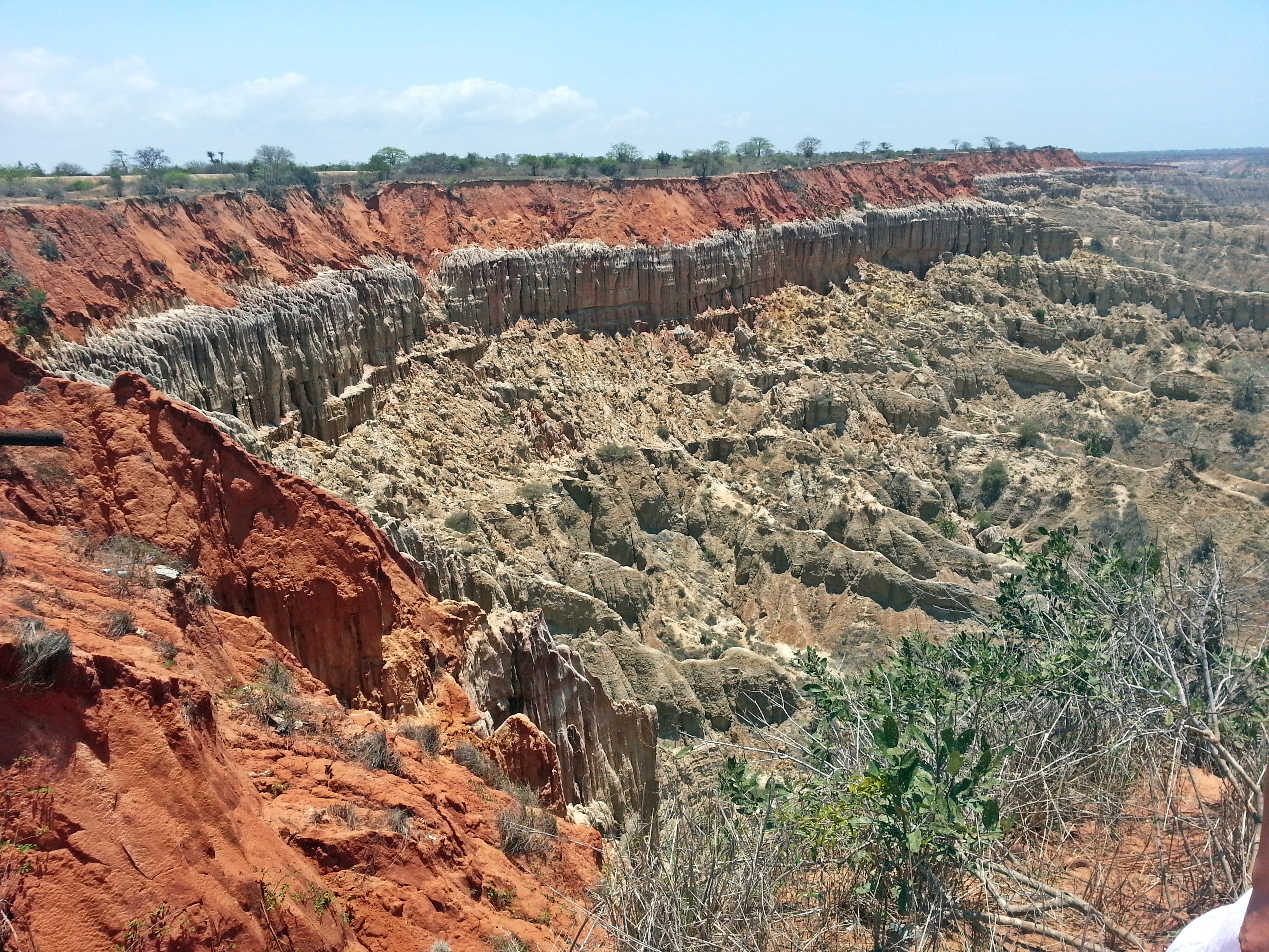 The "moon view" is a spot that displays a landscape that suposably resambles the moon; It has a special glow at night.